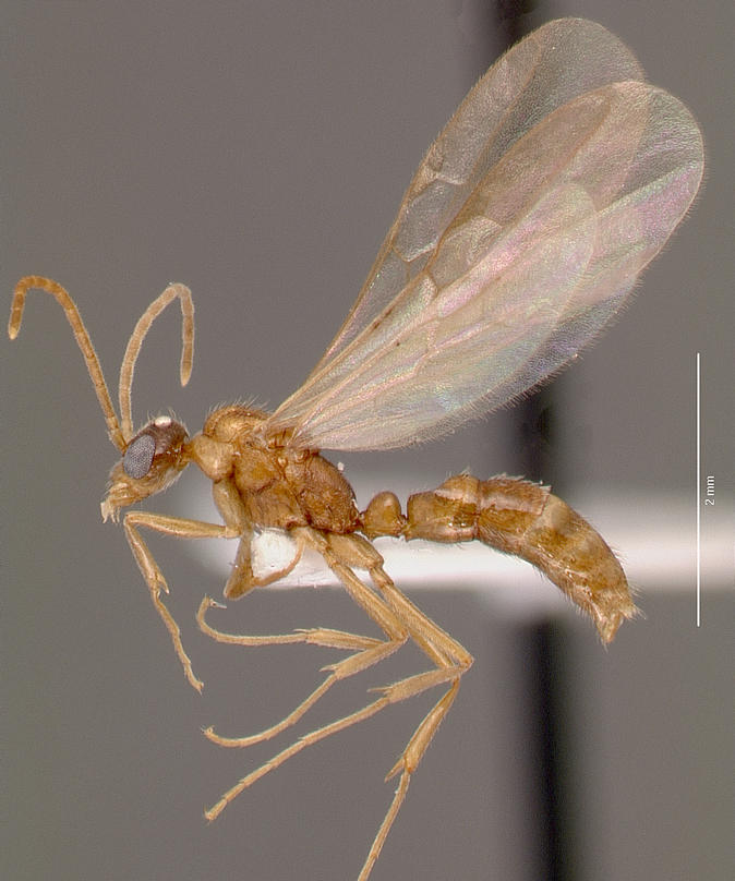 Profile view of ant Leptogenys intermedia specimen sam-hym-c002646a.